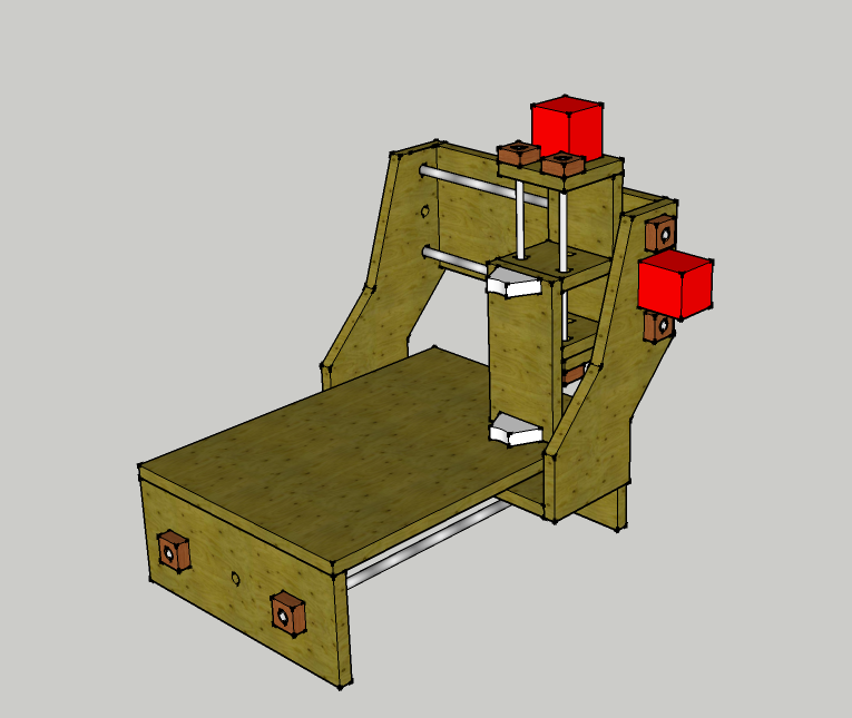 Home drawn, colored CNC. Drawn in Google Sketchup